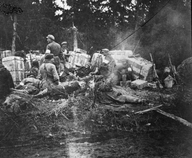 White soldiers in Lempäälä.